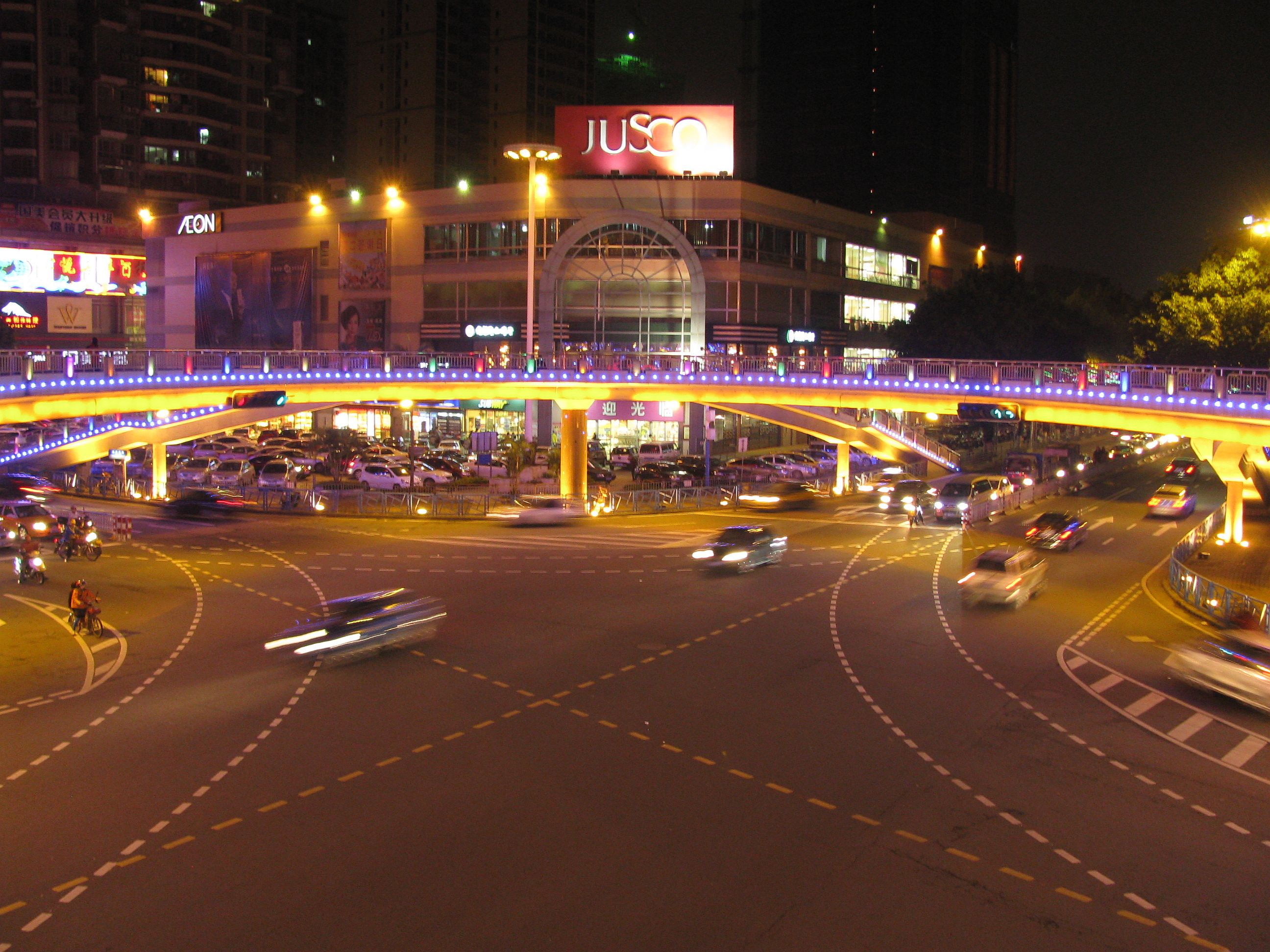 Shiqi District in Zhongshan, Guangdong, China.